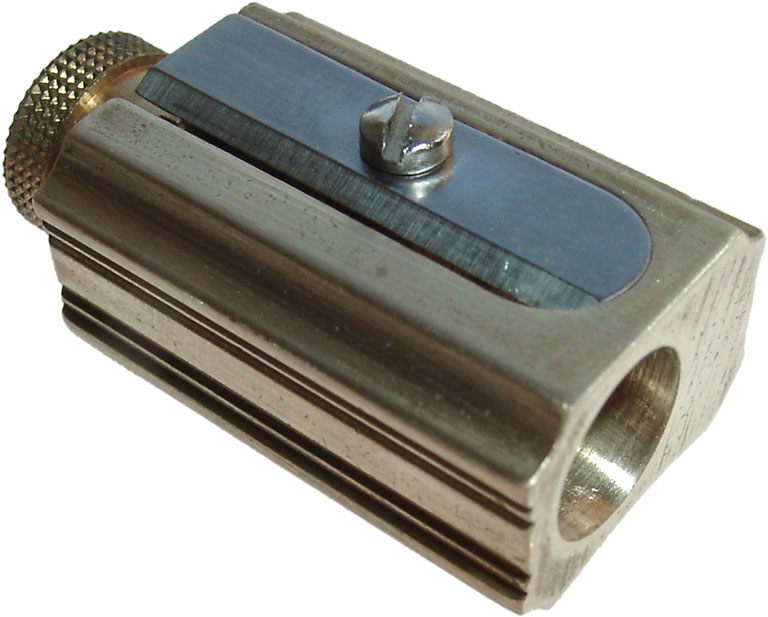 Pencil sharpener.